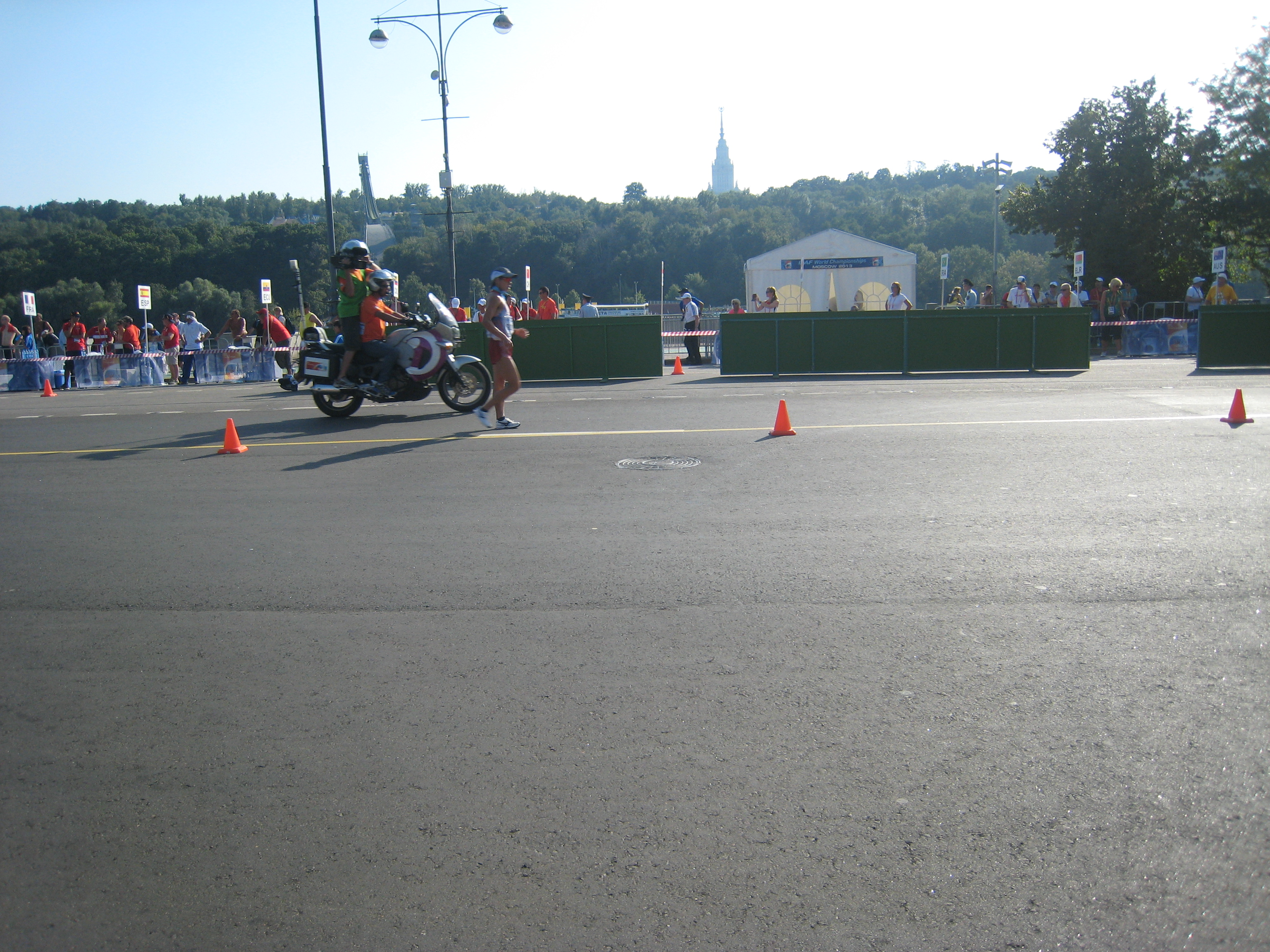 2013 IAAF World Champiomships in Moscow. 20 km walk men. Takumi Saito (JPN)